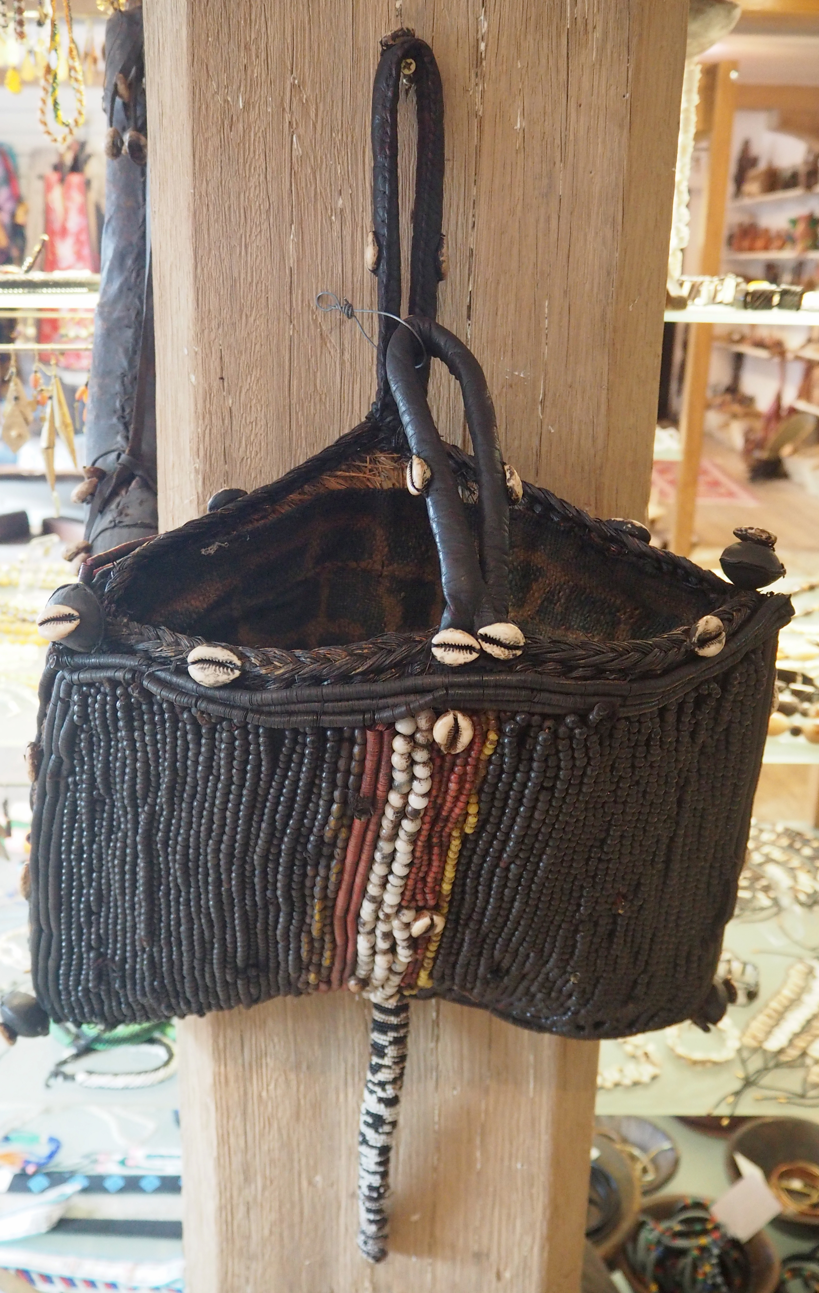 This bag is made in the traditional style of raffia bags carried over the shoulder of men among the Bamileke people of Cameroon. The beads are threaded then sewn onto a raffia weave lining and then lined inside with old indigo resist dyed hand loomed Ndop cloth. The age is uncertain however component beads are Czech cast glass and probably date to the 1940 - 50's Beaded items such as this were commissioned as gifts to be given to the Fons or provincial rulers and displayed in their courts as a status symbol. The bag weighs 2.4kg and measures: bag - 32 x 42cm and with handles and tail 72cm AU$ 385 For further information please feel free to contact me: Ann Porteus Sidewalk Tribal Gallery 19-21 Castray Esplanade, Battery Point 7004 Hobart Tasmania Australia +613 62240331